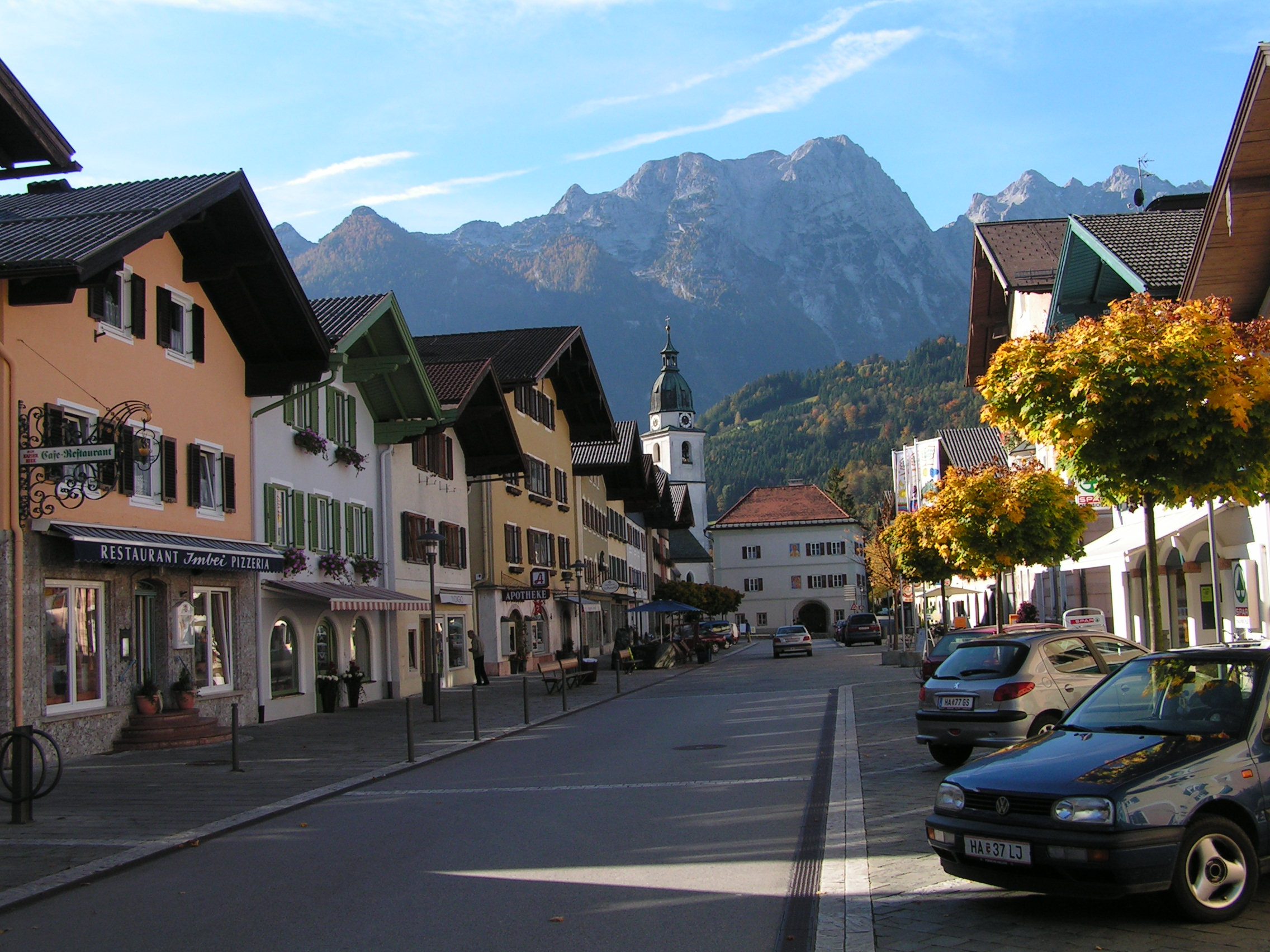 Centre of Kuchl with Freieck in the background